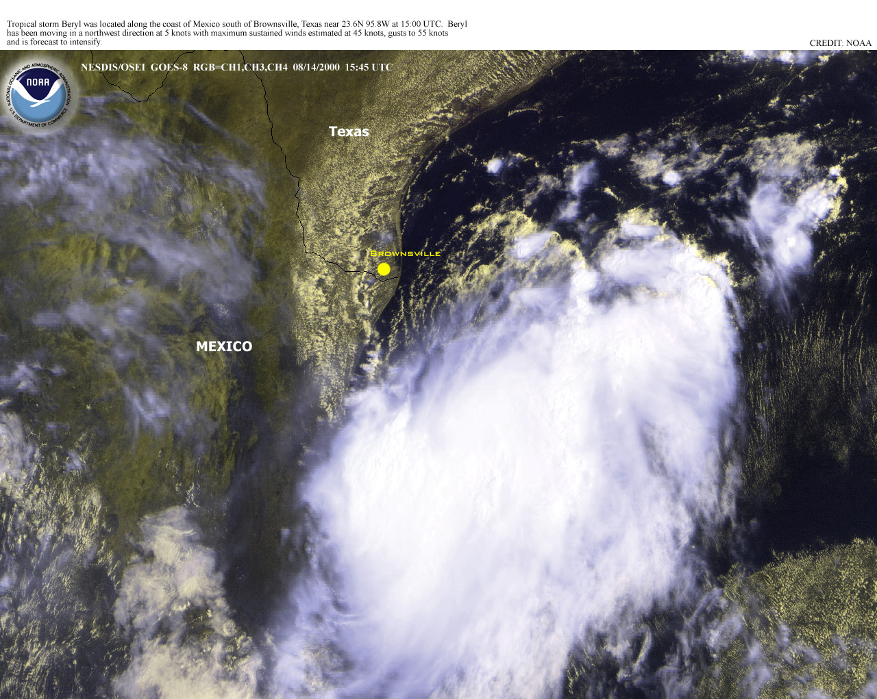 Tropical Storm Beryl was located along the coast of Mexico south of Brownsville, Texas near 23.6N 95.8W at 15:00 UTC. Beryl had been moving in a northwest direction at 5 knots with maximum sustained winds at 45 knots, gusts to 55 knots and was forecast to intensify.